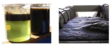 Floculacion Ionica